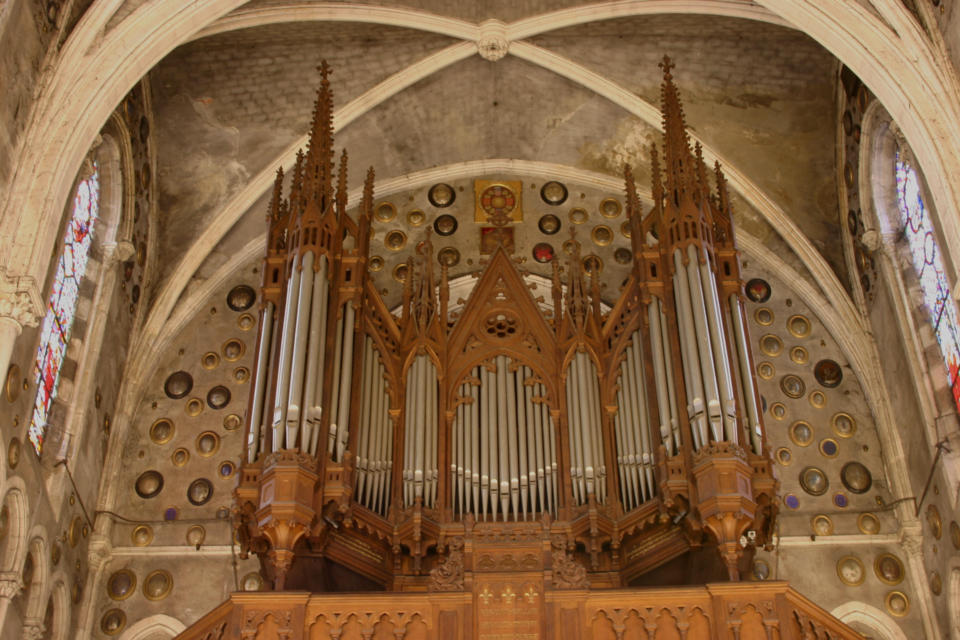 Basilica of the Immaculate Conception - Lourdes